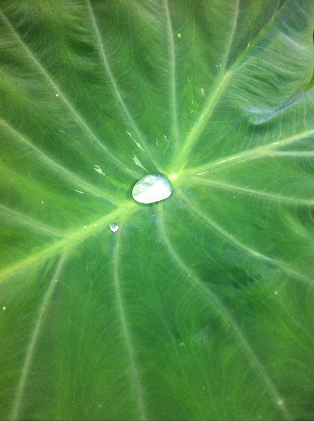 A drop of dew on an Elephant Ear plant's leaf (Colocasia) in Trädgårdsföreningen, Göteborg, Sweden, 2012